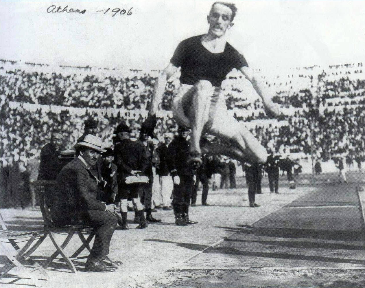 Peter O Connor